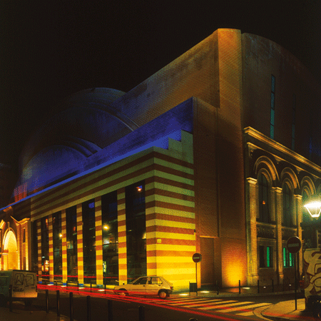 Théâtre National de Toulouse